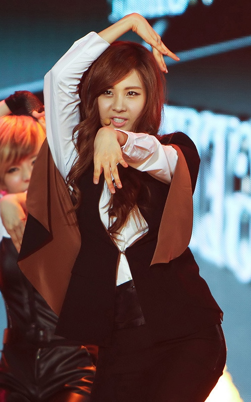 Seohyun at Nongshim Love Sharing Concert in November 6, 2011.